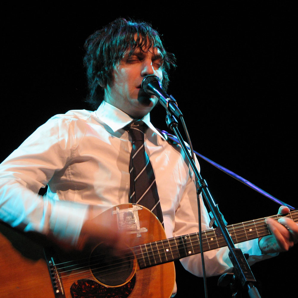 Jesse Malin live at the Commodore Ballroom in Vancouver, BC.